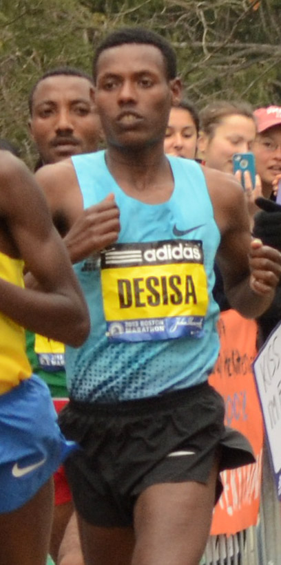 Lelisa Desisa Benti, male winner of 2013 Boston Marathon near half way point after wellesley college scream tunnel but before wellesley square.